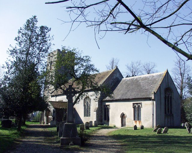 The church of St Mary in Bedingfield, Suffolk, England. A Grade I listed medieval church